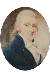 Portrait of John McKee as a young man. John McKee was a politician in the Southwest Territory (later Tennessee) and Alabama. He was the first representative to the U.S. Congress from the 2nd district of Alabama (1823-1829).